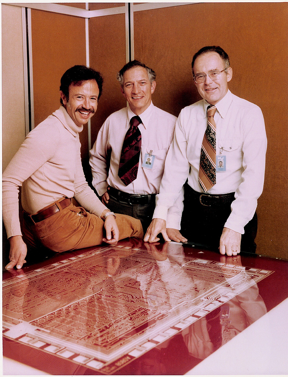 Andy Grove, Robert Noyce and Gordon Moore in 1978.